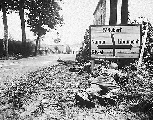 "Men of the 8th Infantry Regiment attempt to move forward and are pinned down by German small arms from within the Belgian town of Libin. Men seek cover behind hedges and signs to return the fire." Gedicks, September 7, 1944. 111-SC-193835.